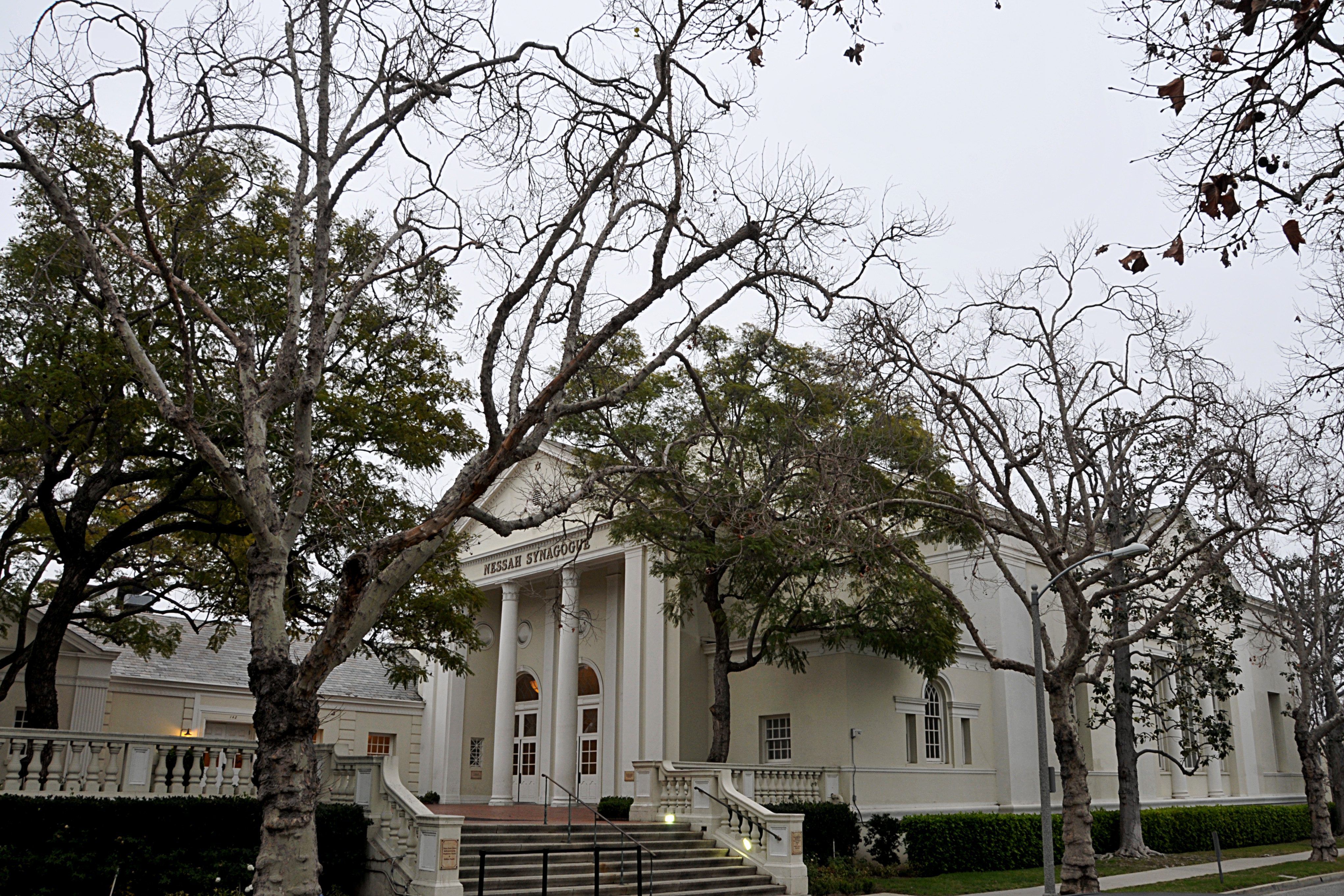 Nessah Synagogue, Beverly Hills, California - Photo by Glenn Francis of